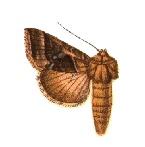 From Plate CCXXXVII